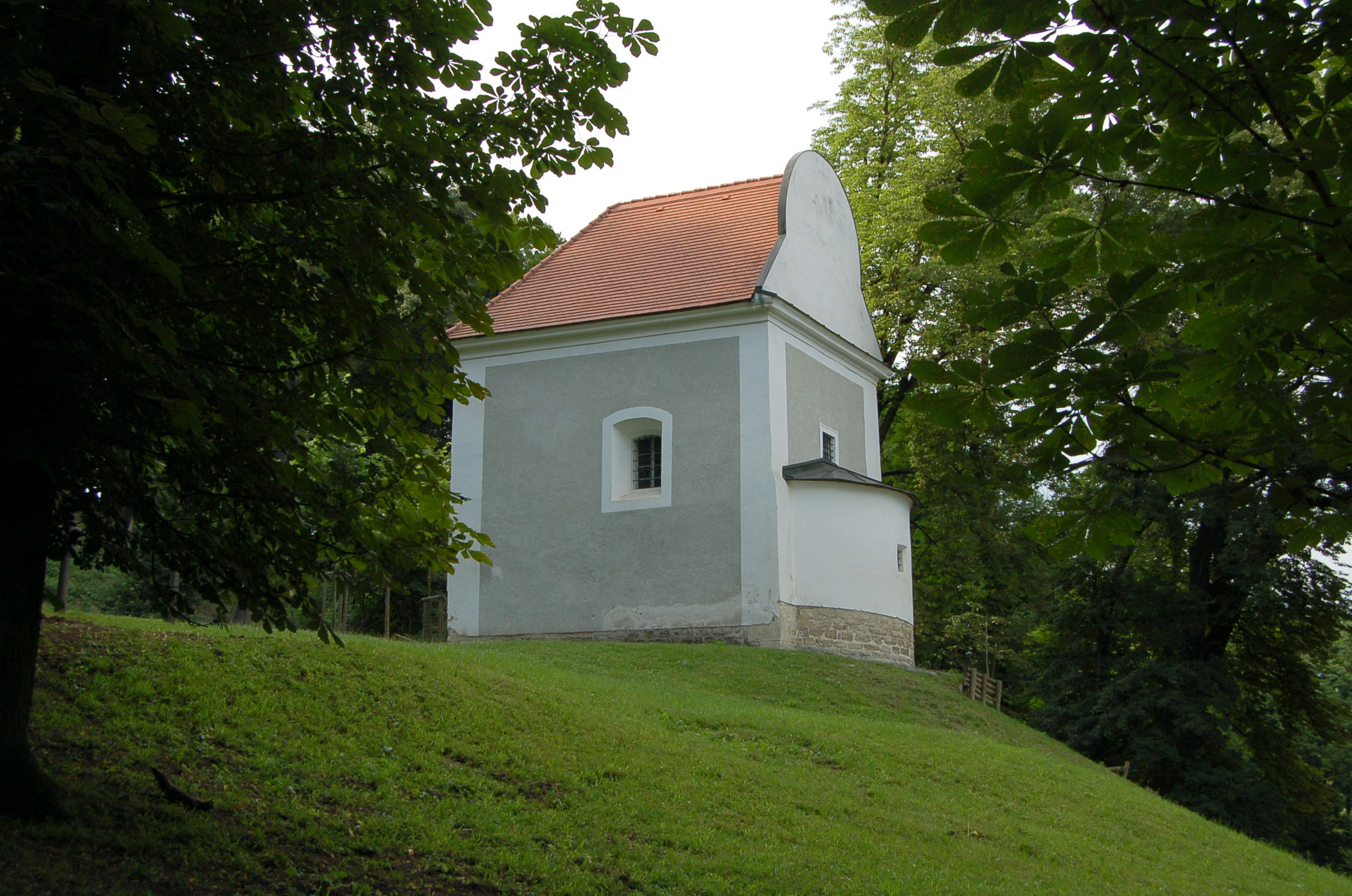 Nikolaikapelle, a chapel situated in Vienna's Lainzer Tiergarten